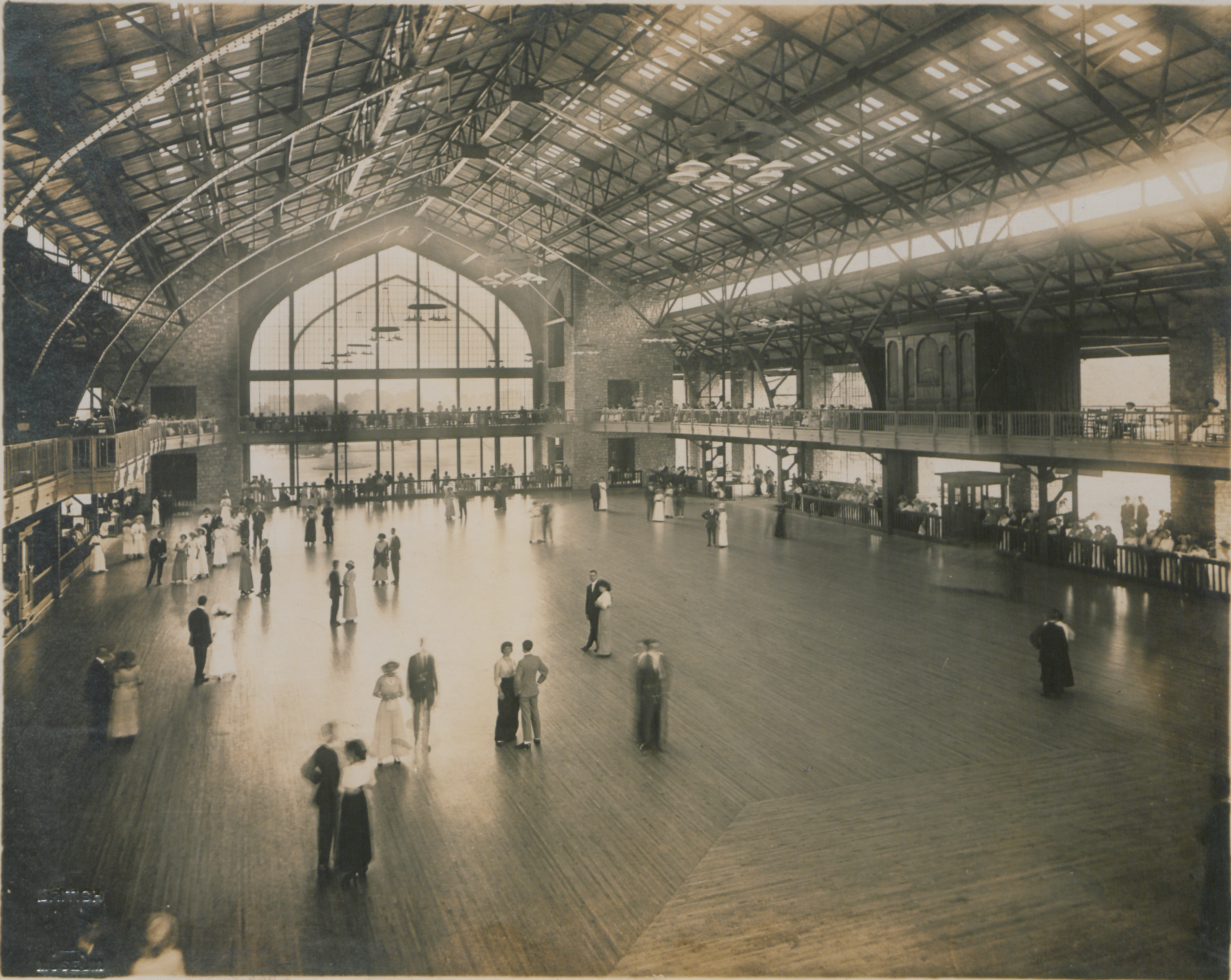 Original caption: “Dancing pavilion at Bo-Lo, Bois Blanc Island, Detroit River.” Boblo Island Amusement Park was an amusement park which ran from 1898 to 1993 Bois Blanc Island in Amherstburg, Ontario, Canada. Henry Ford financed a dance hall that was the second largest in the world. Designed by Detroit architect Albert Khan, and constructed of steel and stone, the east side of the building featured a tall cathedral-like glass wall. Construction was started in 1912 and was completed in time for the opening of the park's 1913 season. The building housed the largest dance floor in North America until the Crystal Ballroom was opened at Crystal Beach. It held 5,000 dancers at full capacity and featured one of the world's largest orchestrions from the Welte company: a 16 foot tall, 14 foot wide, self-playing orchestra with 419 pipes and percussion section.